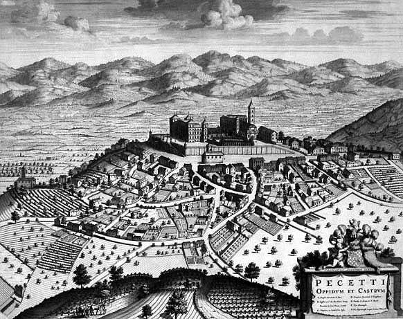 Etching on a copper matrix, contained in "Theatrum Sabaudiæ", published in Amsterdam in 1682.